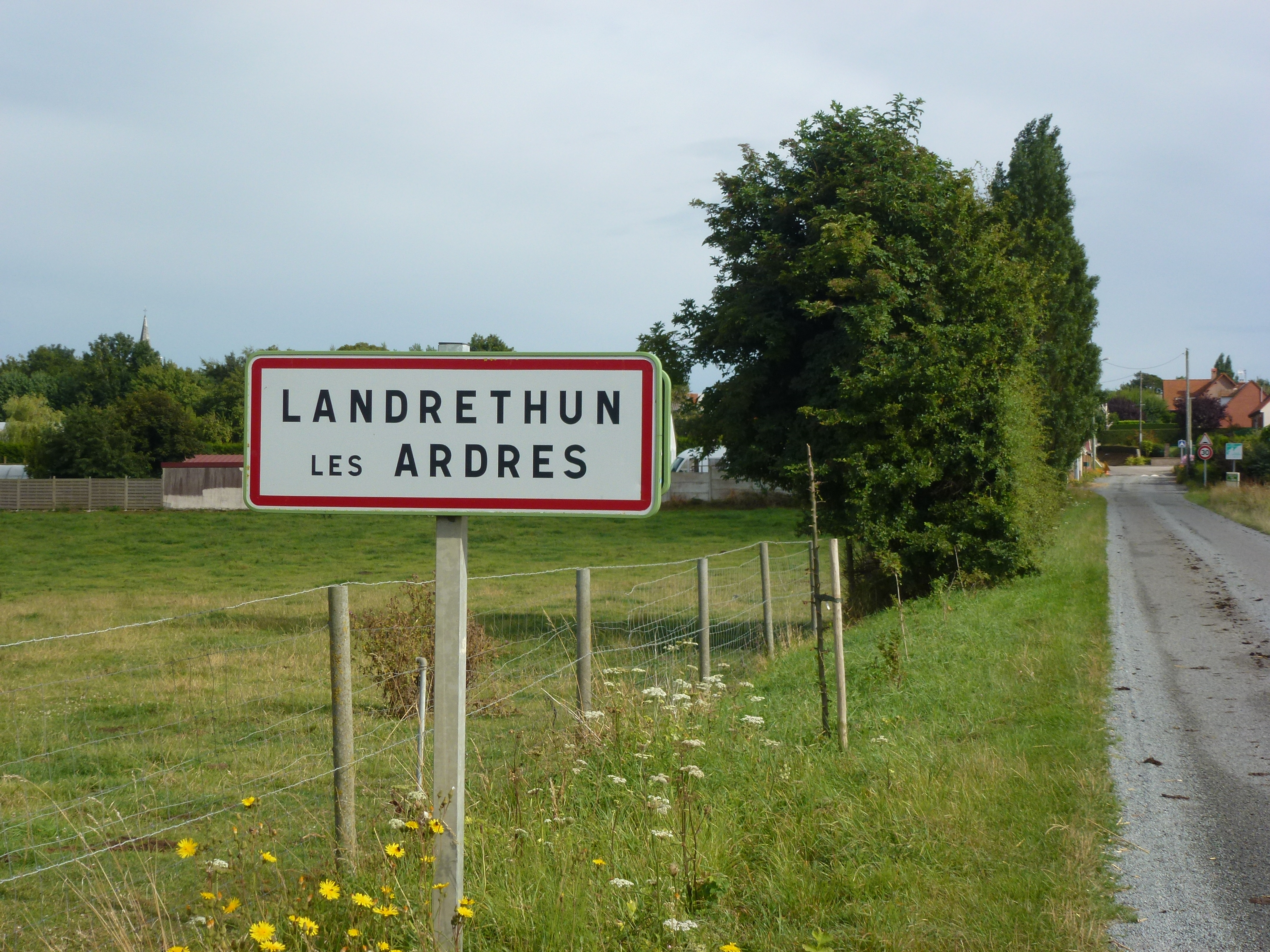 Landrethun-lès-Ardres (Pas-de-Calais) city limit sign